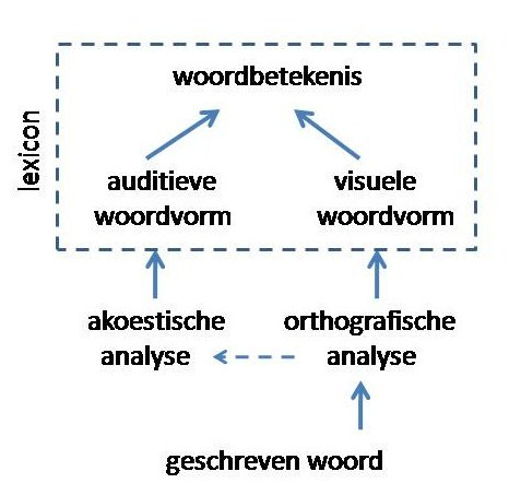 Reading stages